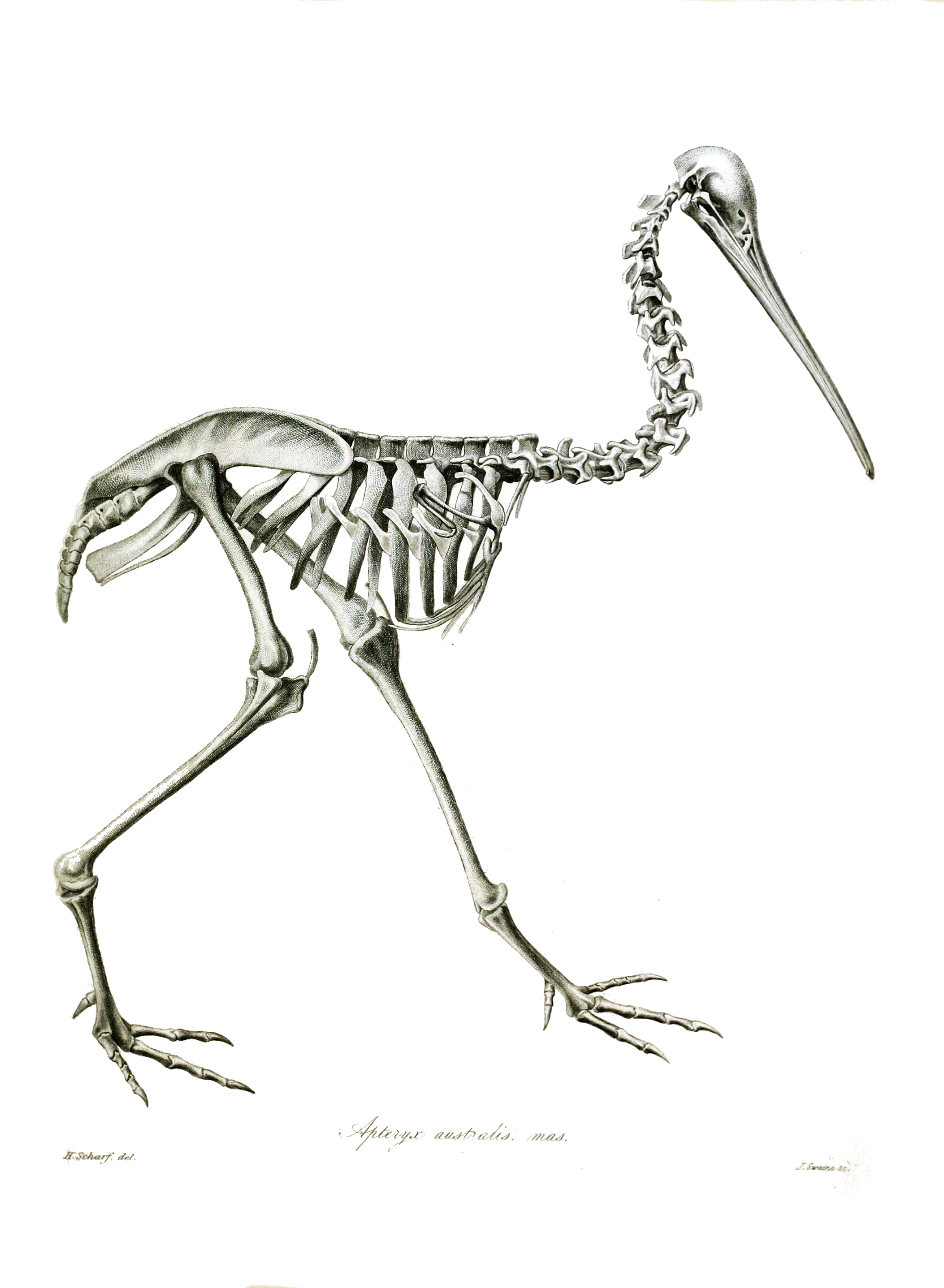 Apteryx australis skeleton by H. Scharf